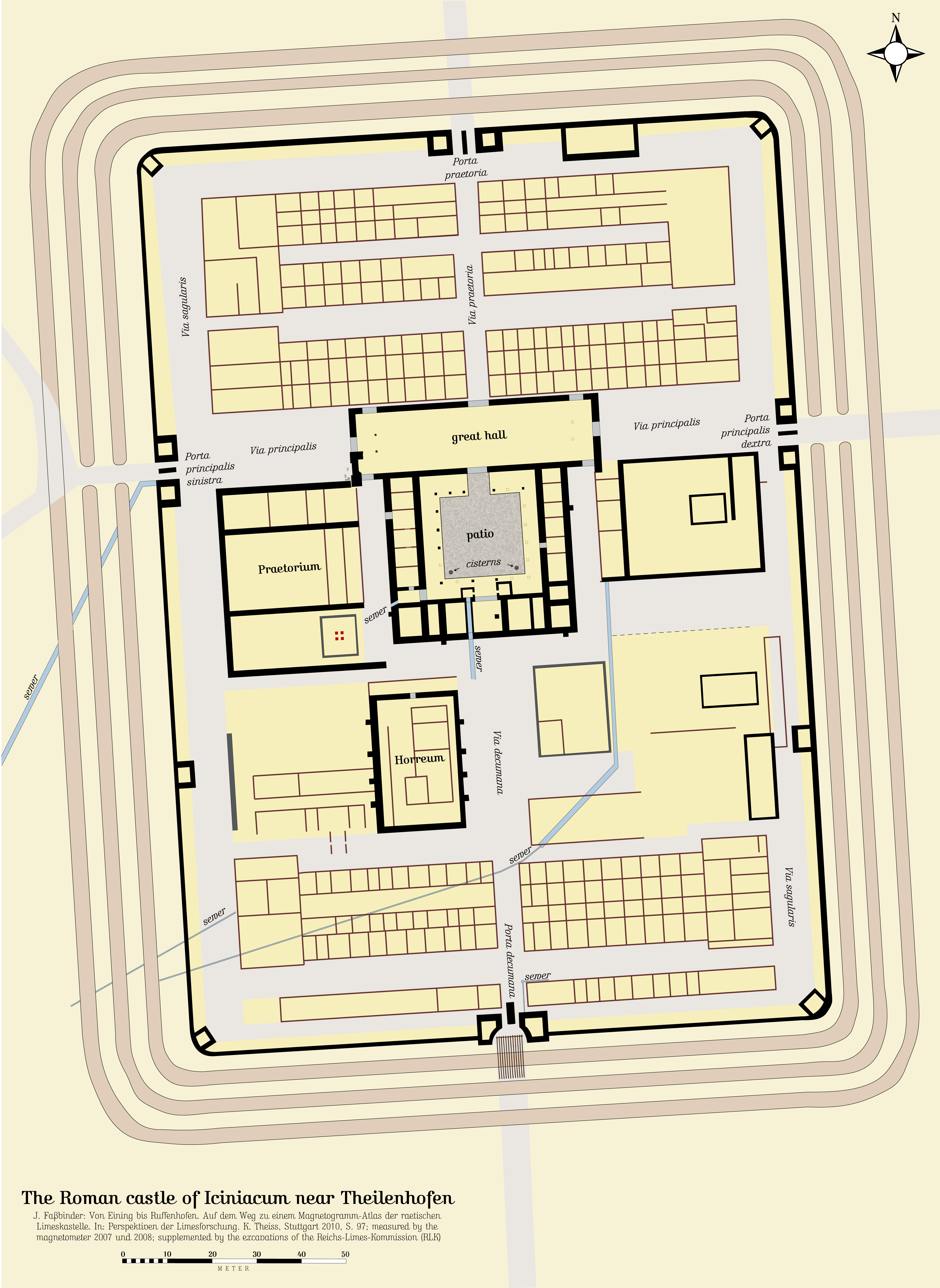 The Roman castle of Iciniacum near Theilenhofen in Bavaria, Germany. The basics of this map are the measurements of the magnetometer from 2007–2008 and the excavations of Reichs-Limes-Kommission and others in the 19th century (1879–1895).